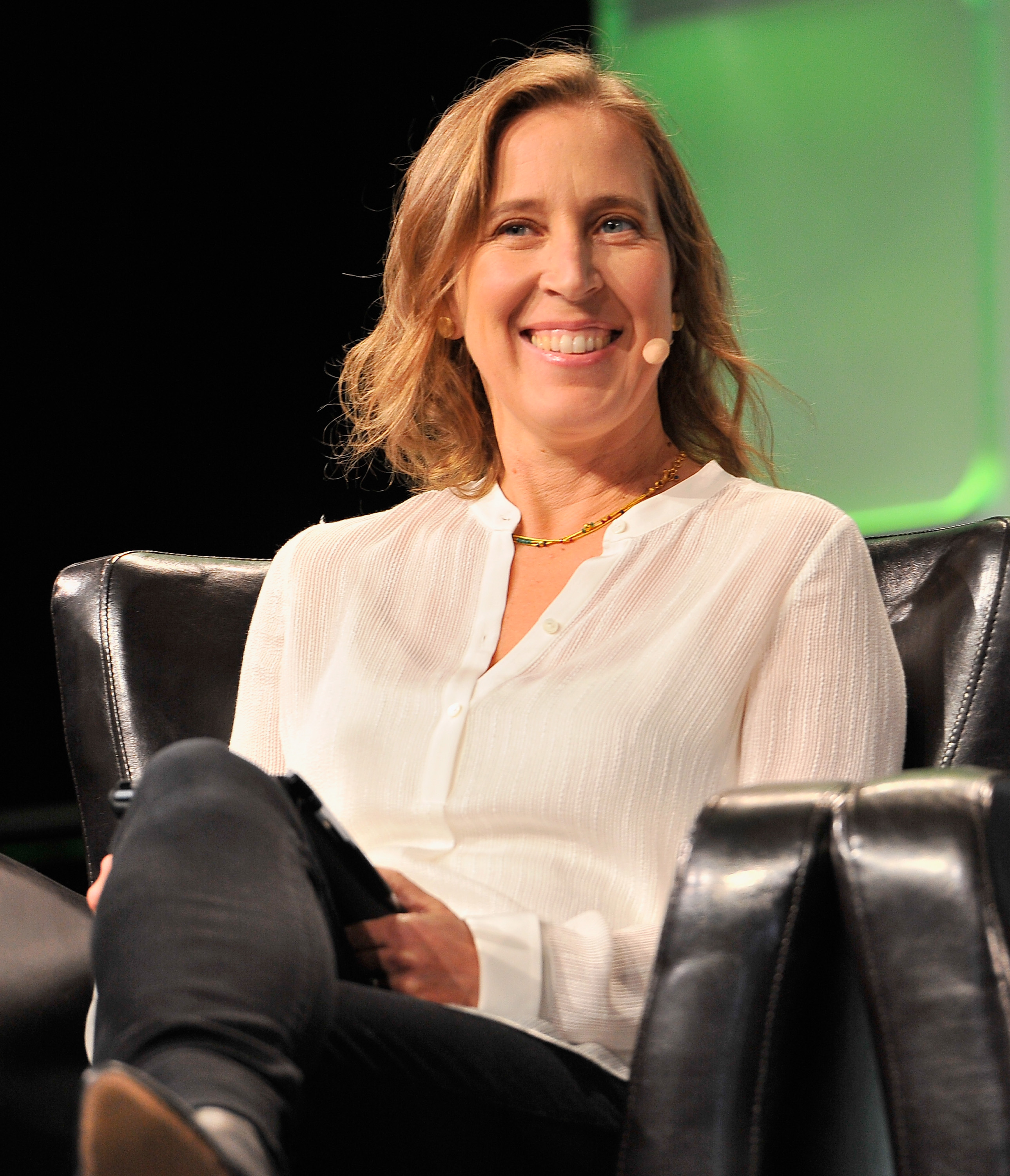 speaks onstage during TechCrunch Disrupt SF 2016 at Pier 48 on September 14, 2016 in San Francisco, California.